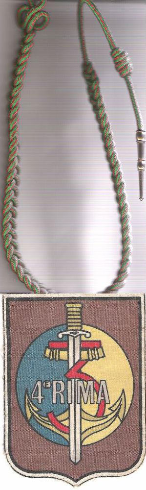 forage in the colors of the ribbon of the Croix de Guerre 1914-1918